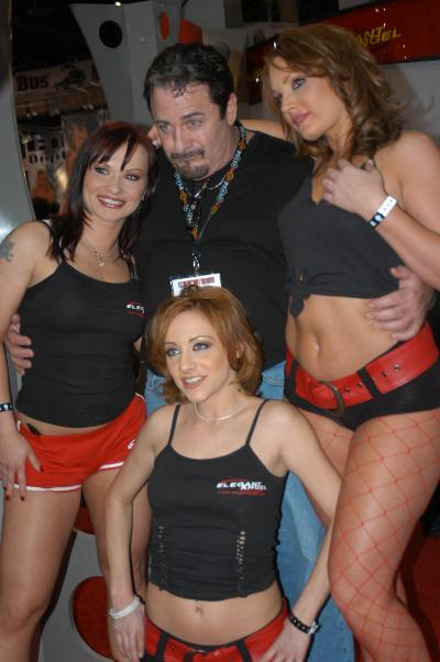 Katja Kassin, Patrick Collins, Sierra Sinn and Flower Tucci at the 2007 AVN Adult Entertainment Expo in Las Vegas